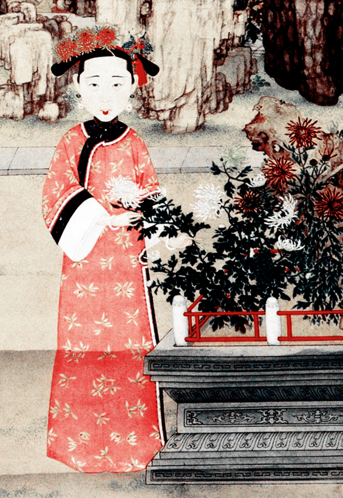 Portrait of the Qing Dynasty Imperial Consort Xiang